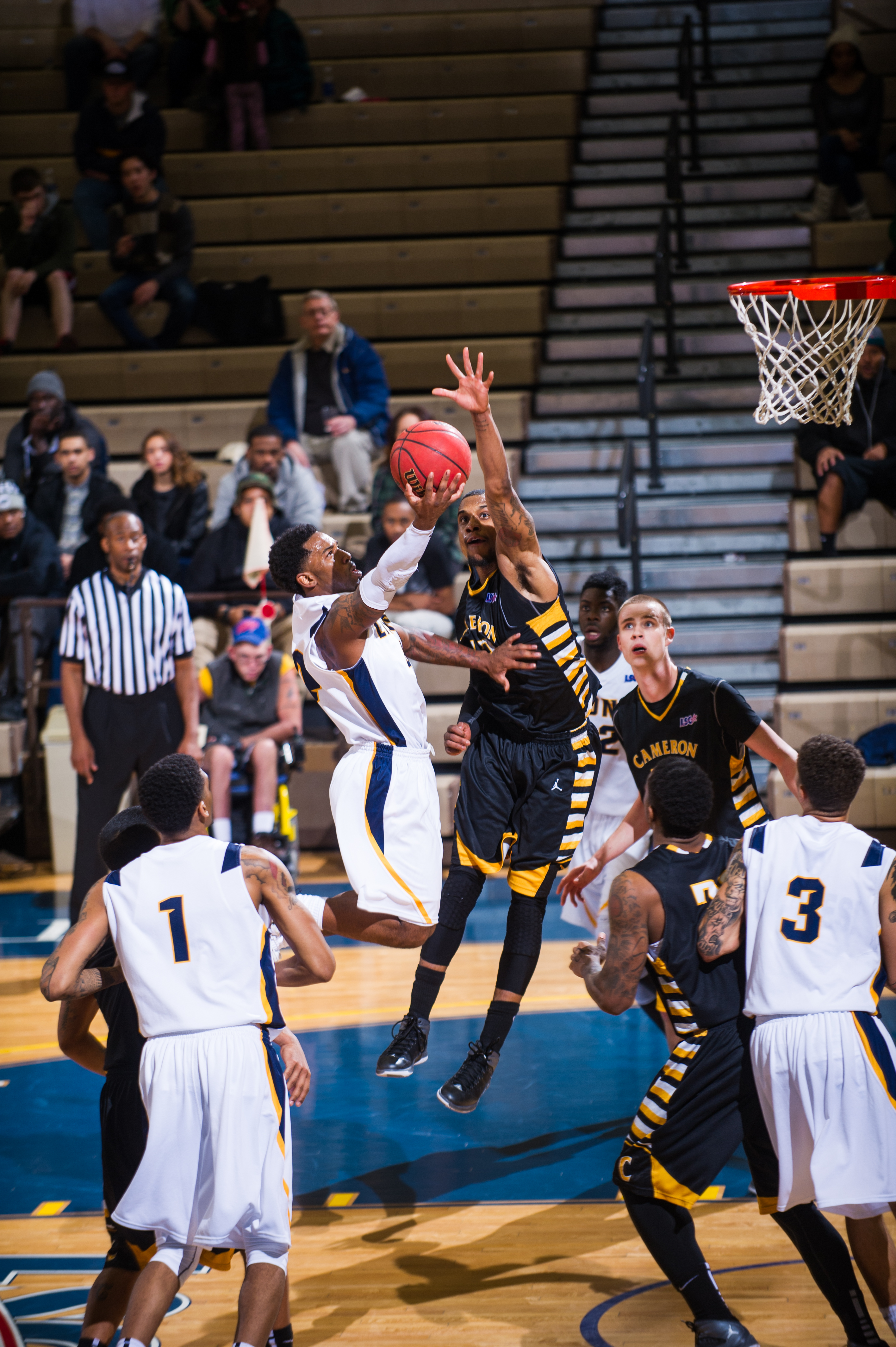 Bball vs Cameron-7030 2013–14 Texas A&M–Commerce Lions men's basketball team